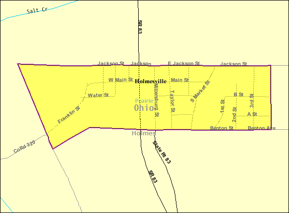 Map of Holmesville, a village in Holmes County, Ohio, United States, with its boundaries at the time of the 2000 census.